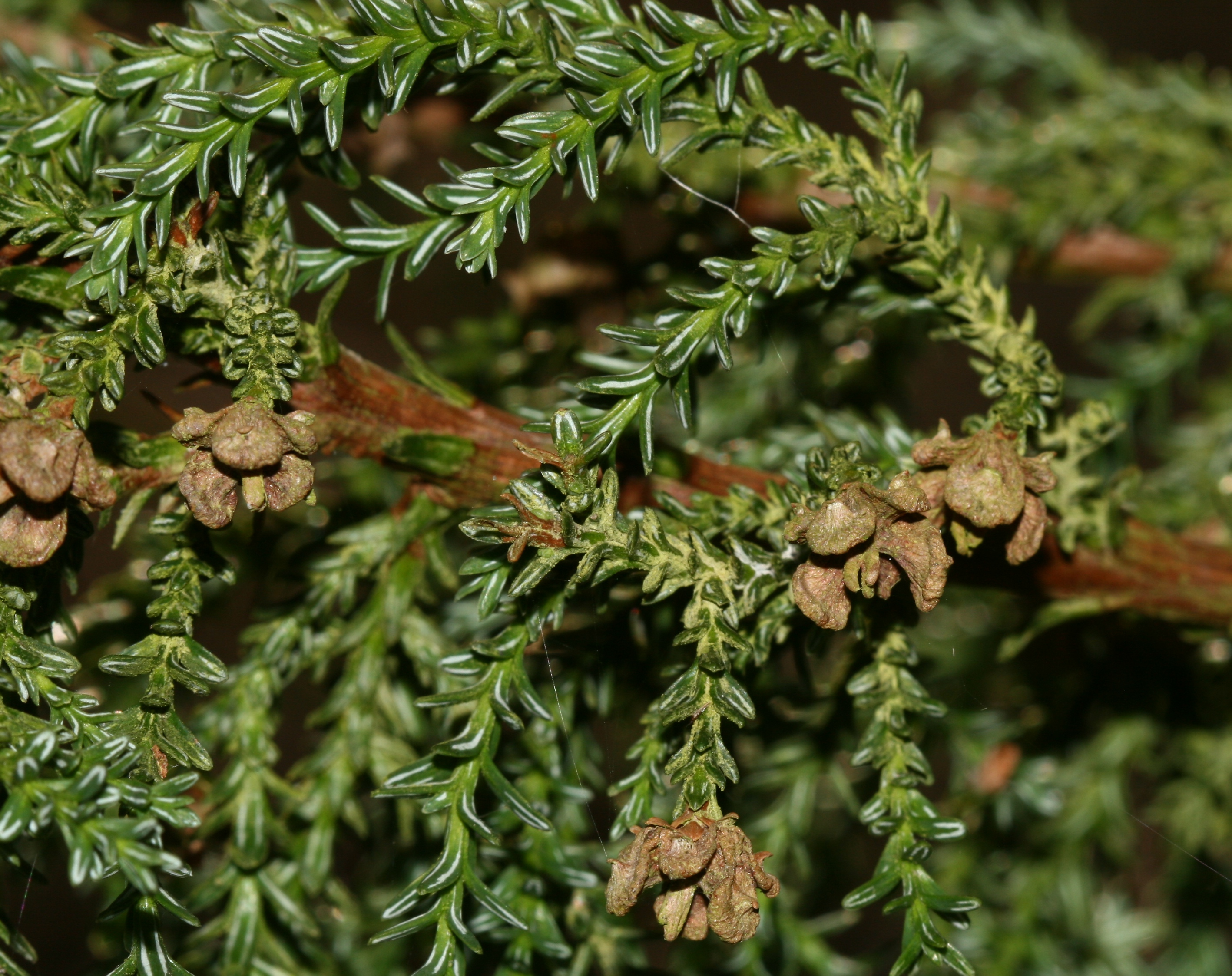 Alerce cones and foliage